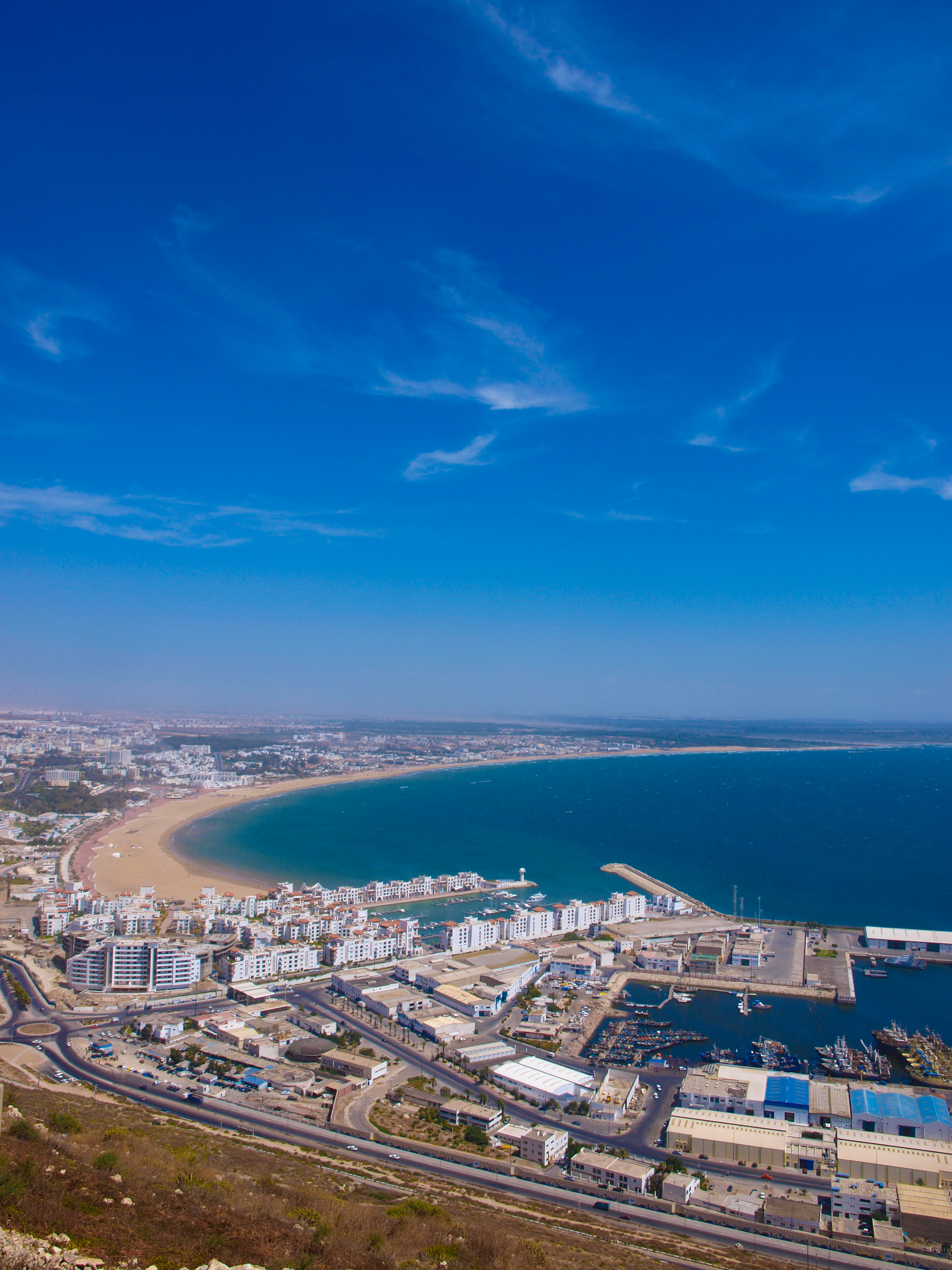 Areal view over Agadir. Taken from the Kashbah.